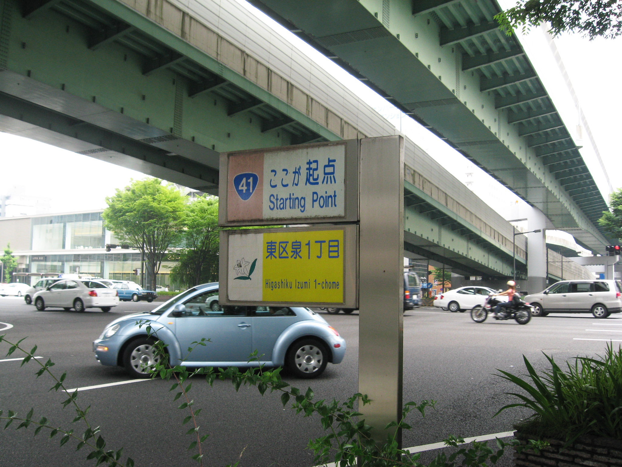 Route 41 (Japan) Starting Point (Takaoka Crossing in Higashi-ku, Nagoya, Japan)